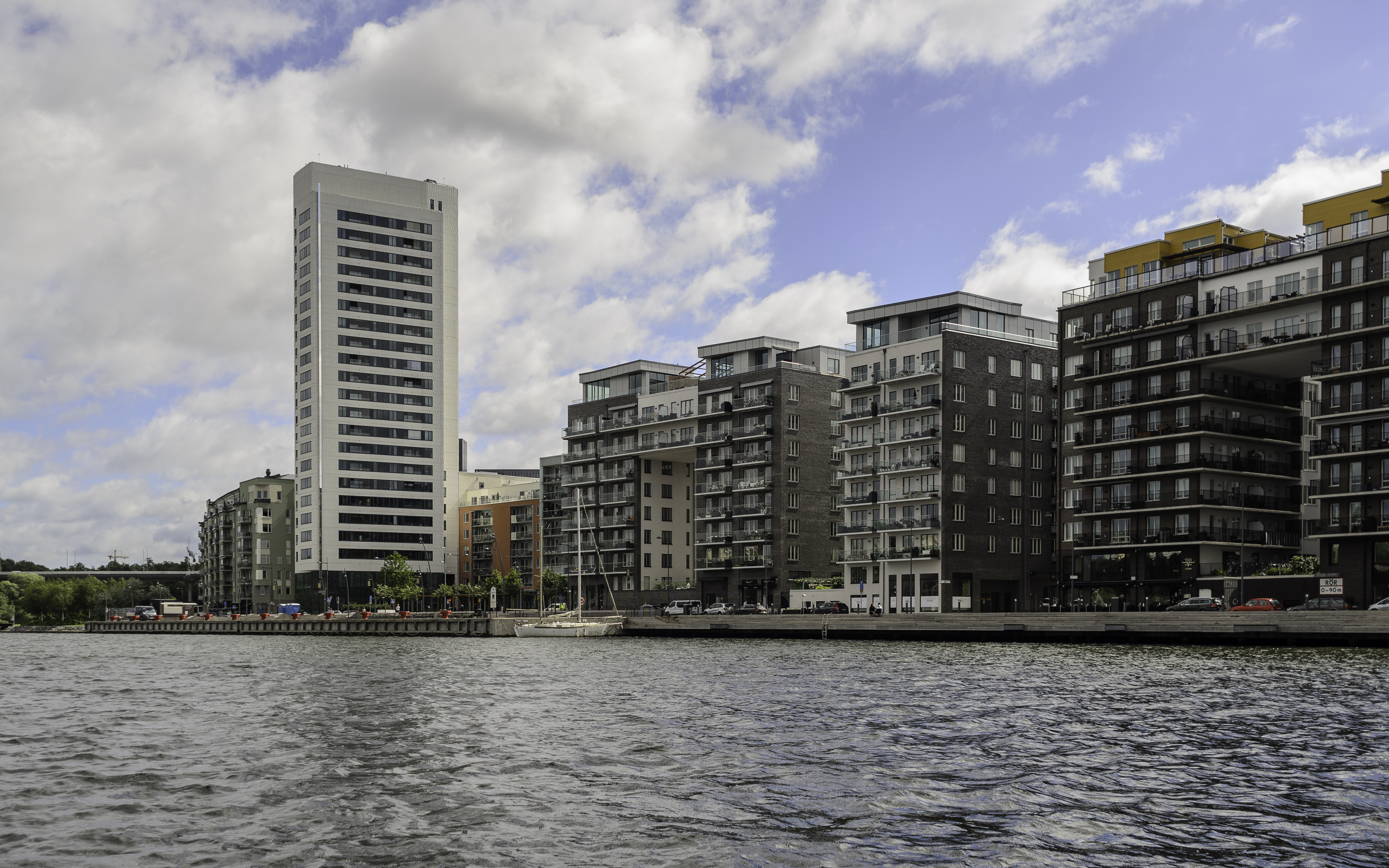 Buidlings in Hornsbergs strand.